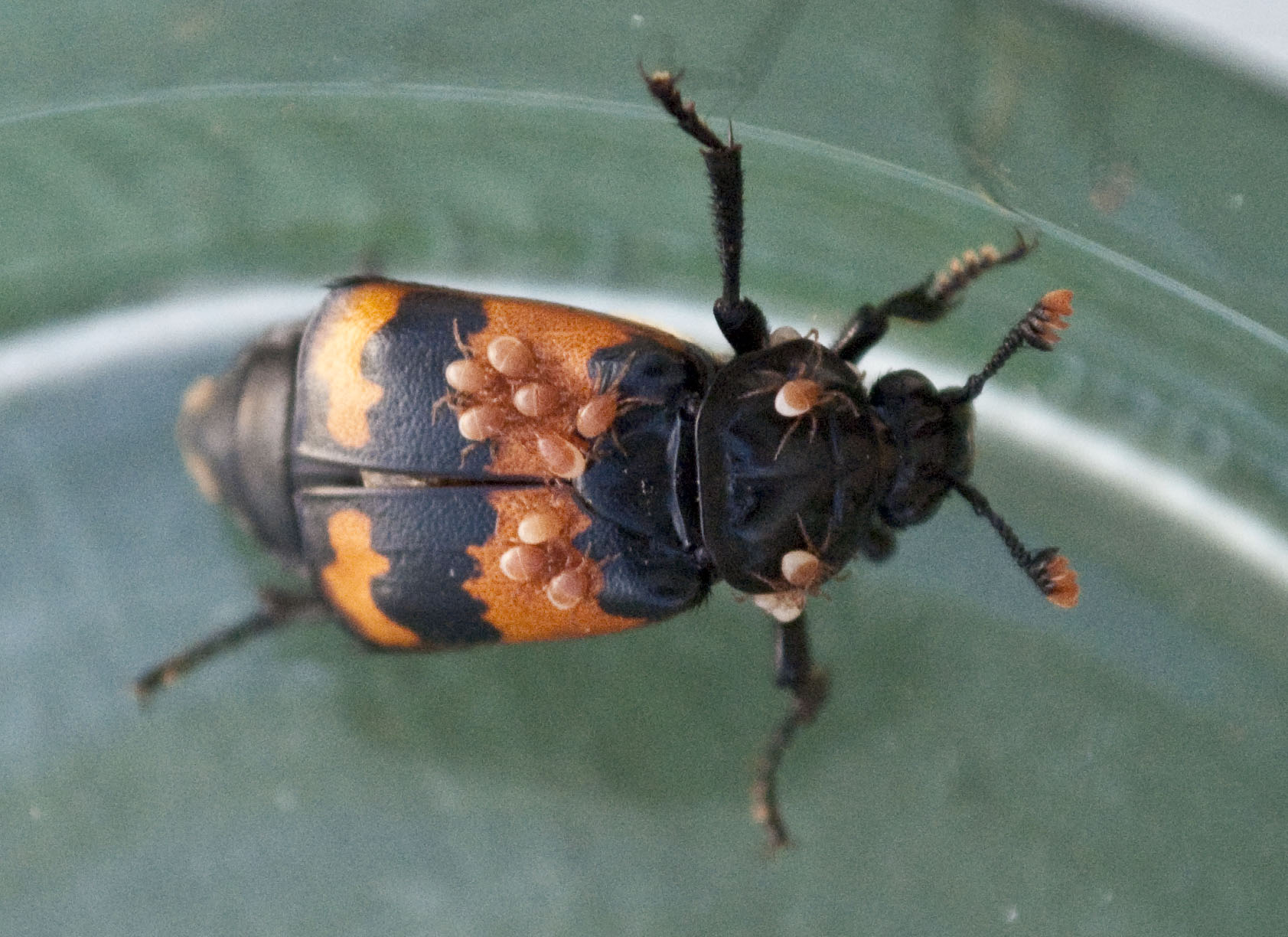 Beetle (Necrophorus investigator) found at Senja in the North of Norway and in north america. It had little "passengers", symbiotic beetle mites (Pergamasus crassipes), crawling all over it. Some crawled to the wing scales when the beetle got ready to fly.